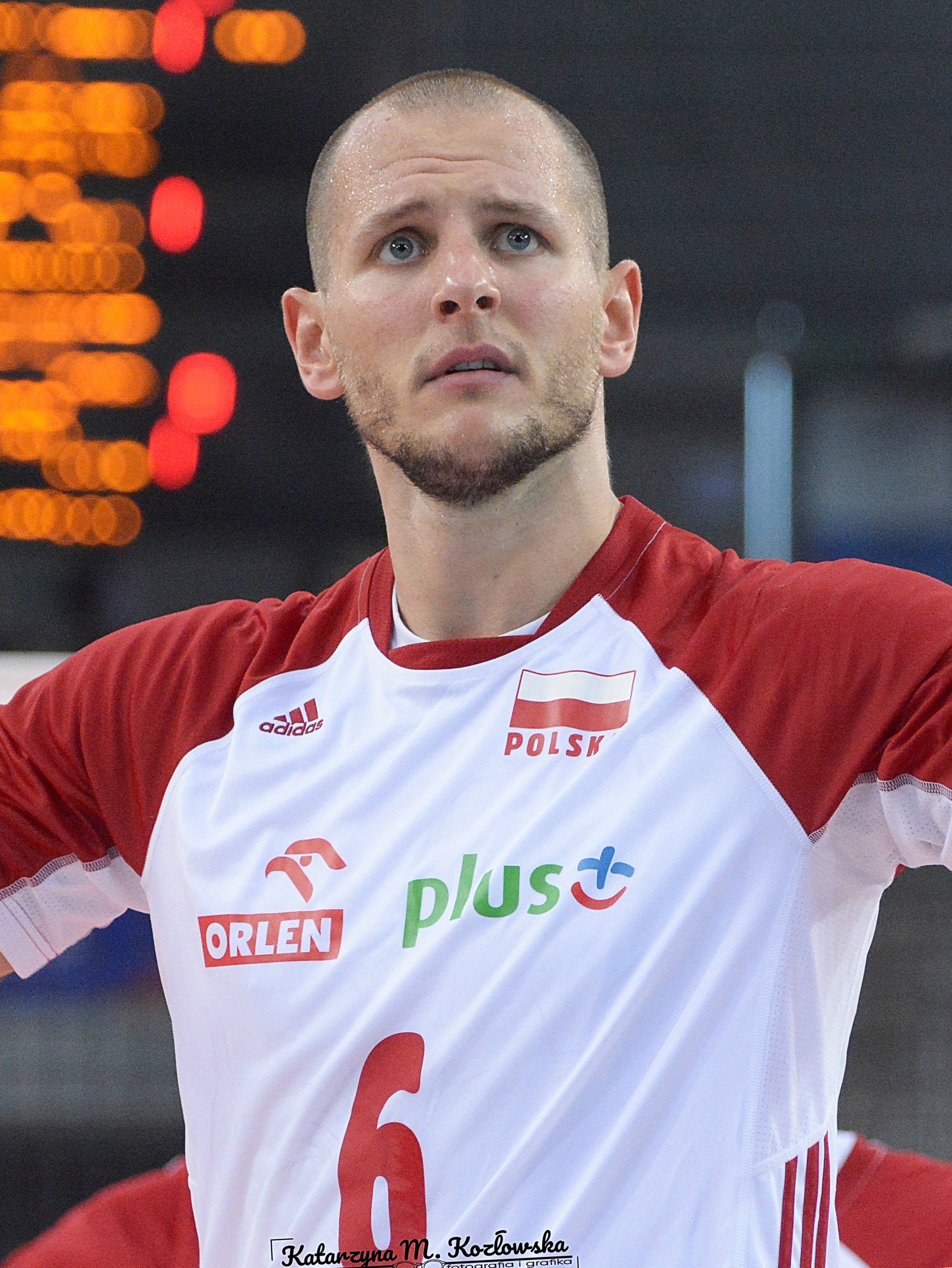 Bartosz Kurek, a volleyball player from Poland. Volleyball Nations League: Poland - France.